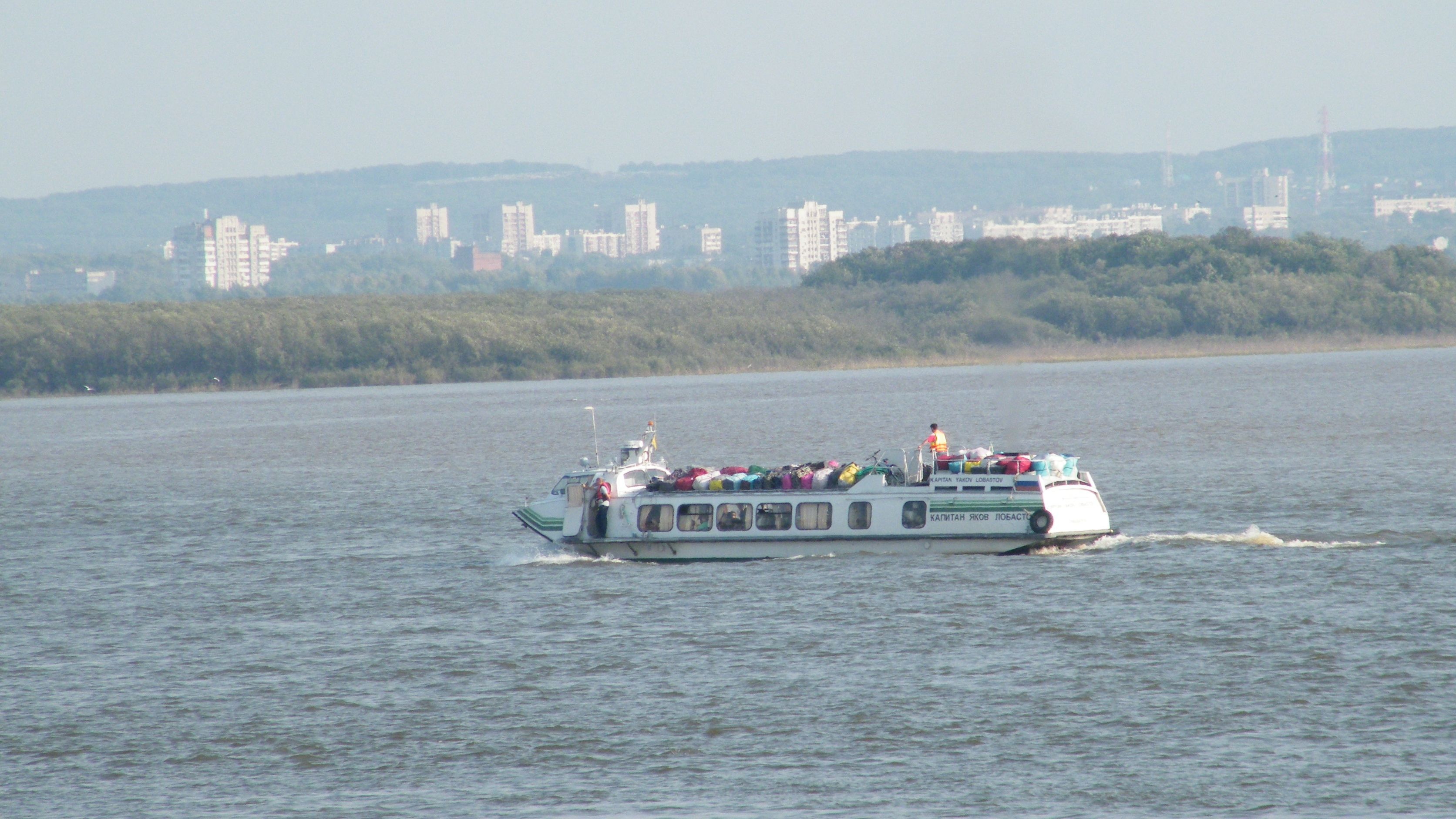 Polesye class hydrofoils